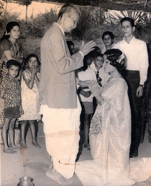 This is a photo of Salvador Barboza (2 July 1895 – 9 October 1978), the first Sacristan of St. Lawrence Parish, Moodubelle. Here, he is giving his blessings to his grand daughter, Lucy Mathias (née D'Souza). The picture was taken at her Ros ceremony in 1975. It was taken from Bellevision's article on Salvador Barboza.